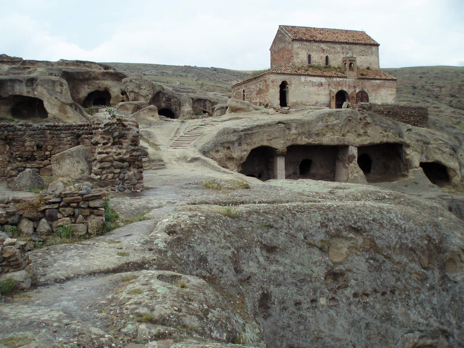 Uplistsikhe Georgia